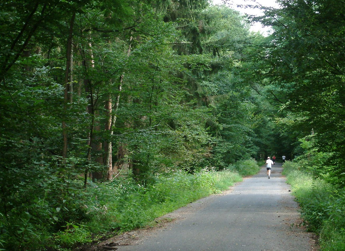 The cycle track Rennweg, crossing Königsforst.